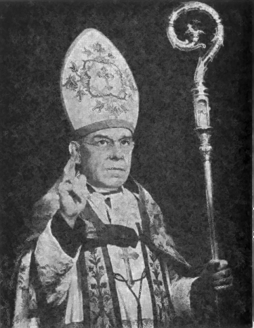 Undated photograph of Carmel Henry Carfora. Believed to have been his official portrait